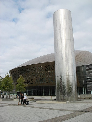 Wales Millennium Centre, Cardiff, Wales